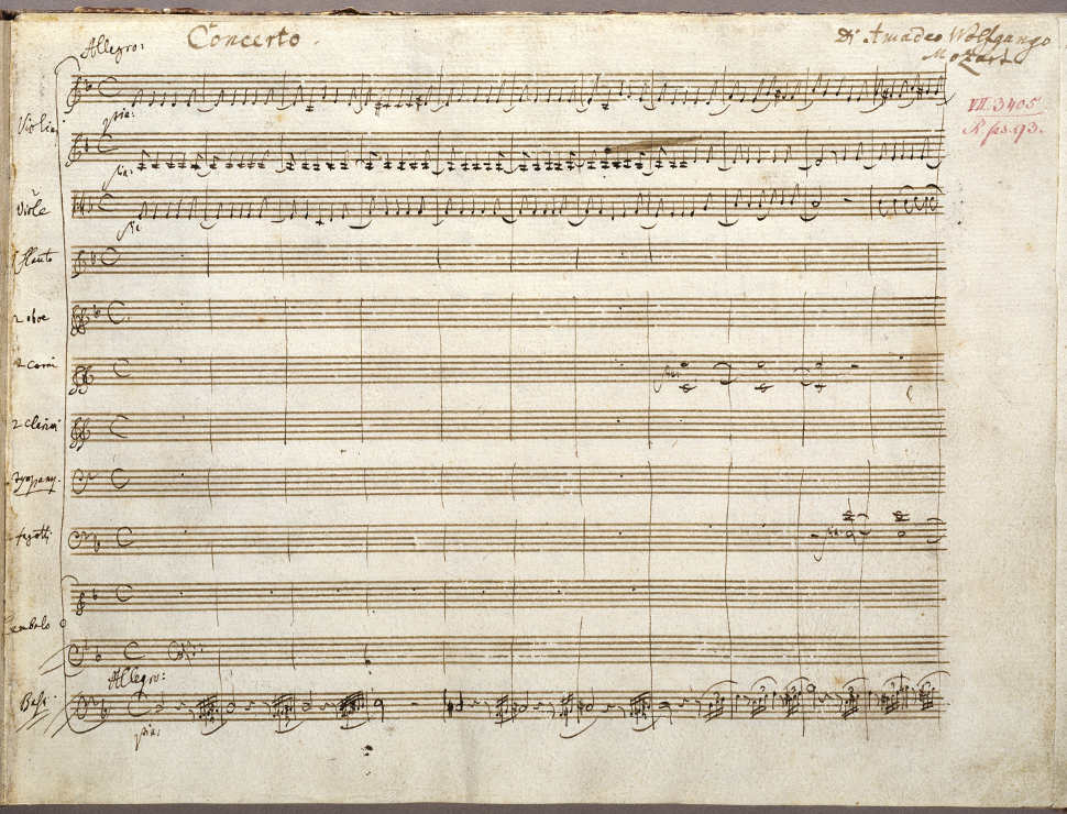 First page of the autograph